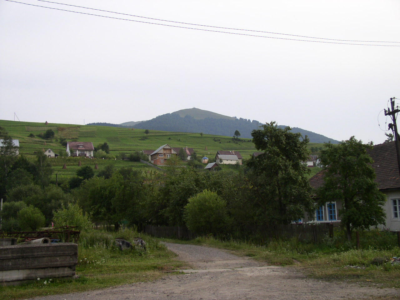 Volovets, Ukraine.